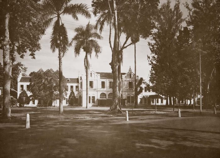 Ursuline convent and school at Buitenzorg